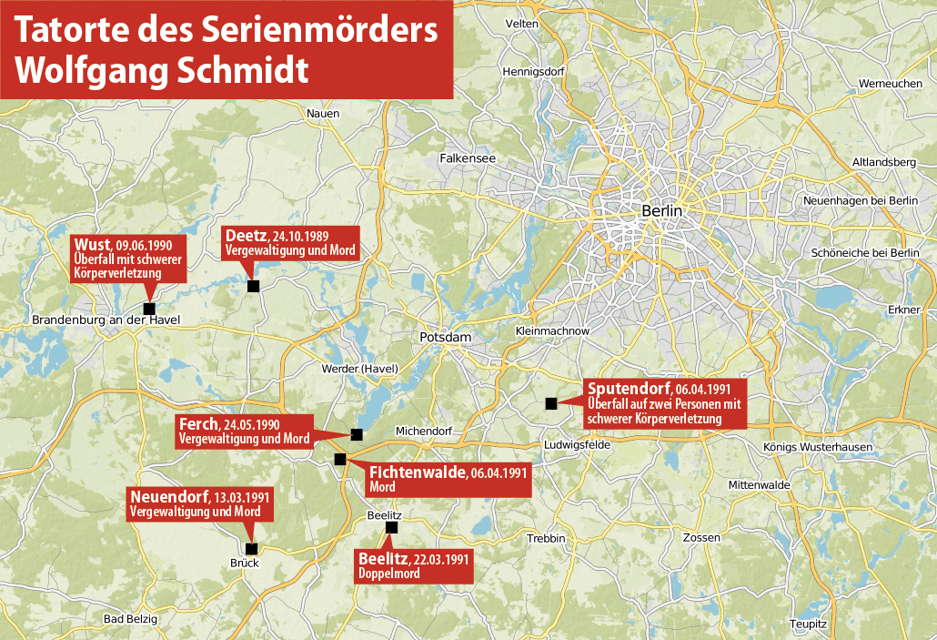 Map of the crime sites of serial killer Wolfgang Schmidt